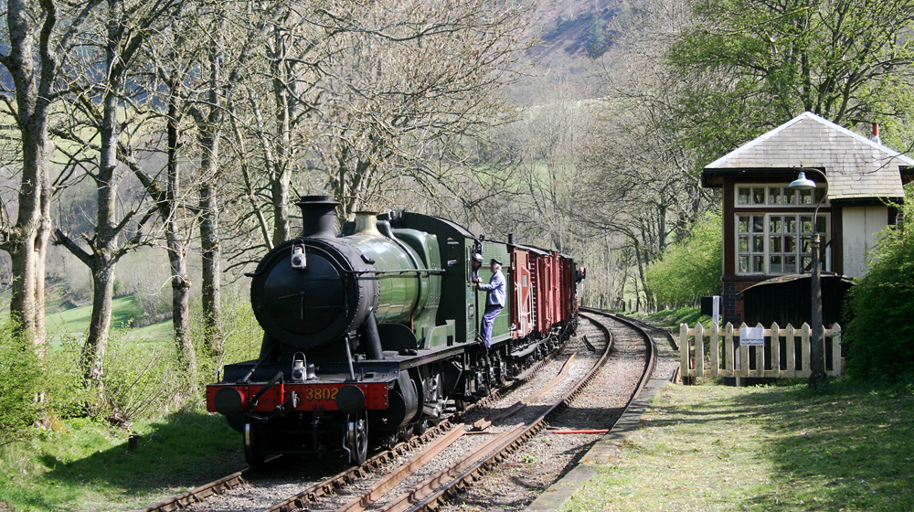 GWR 2884 class locomotive number 3802 at Deeside Halt with a goods train during the Llangollen Railway steam gala weekend, 10/04/2011.